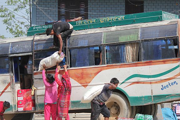 Okhaldhunga is the headquarters of Okhaldhunga District, in the Sagarmatha Zone of Nepal. Locals carry most of the household things by bus.